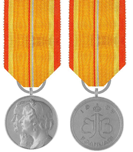 Marrriage Medal 1937 Juliana and Bernhard Netherlands